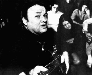 Italian singer Luciano Tajoli